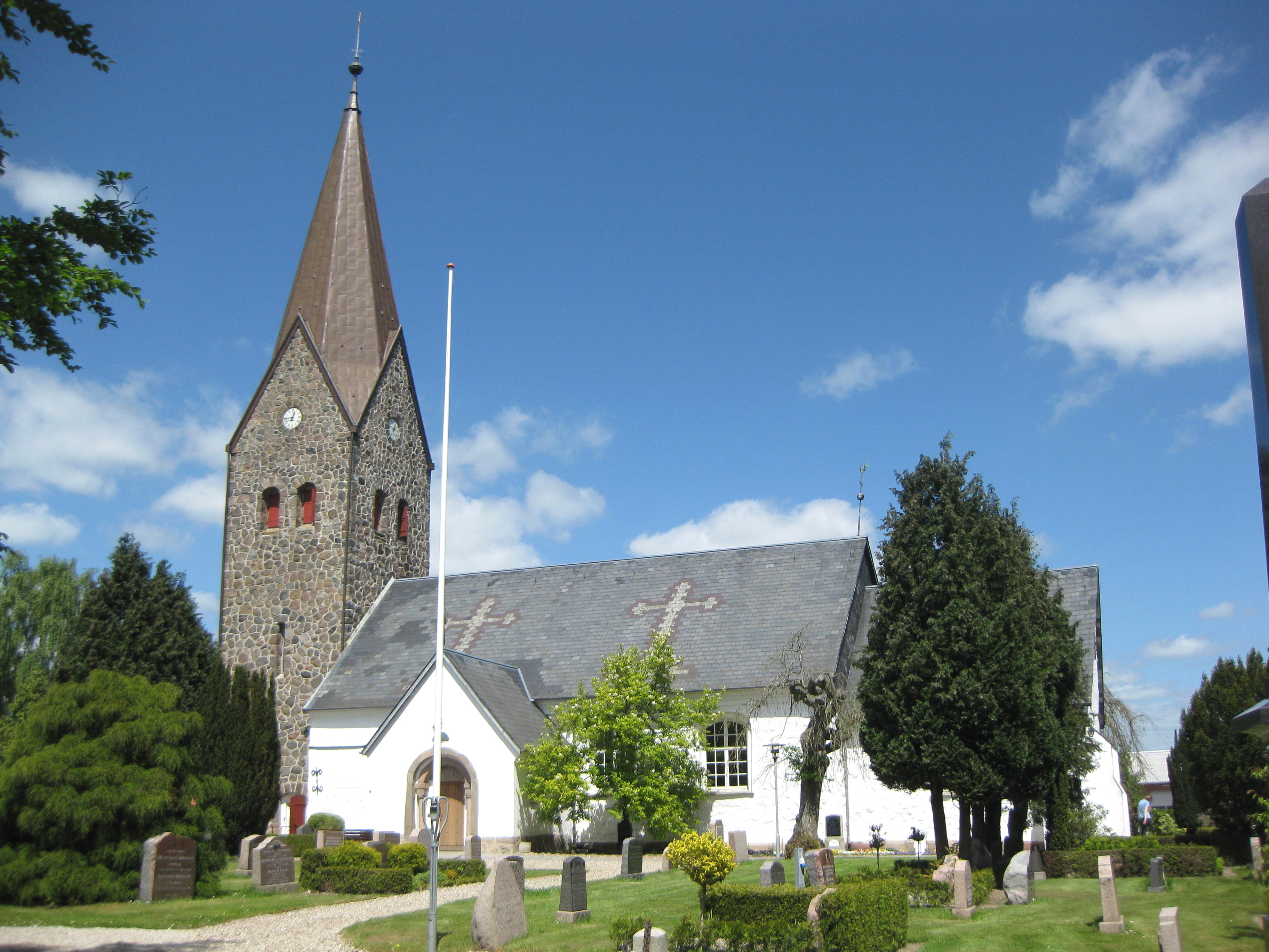 The church "Bov Kirke" in the northern part of the small town "Padborg". The town is located in Southern Jutland, Denmark, close to the German border.